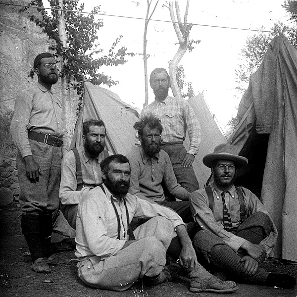 The 1902 expedition to K2. Jules Jacot Guillarmod is in front left: K2 Expedition 1902: (from left to right) Wessely, Eckenstein, Jacot-Guillarmod, Crowley, Pfannl, Knowles.